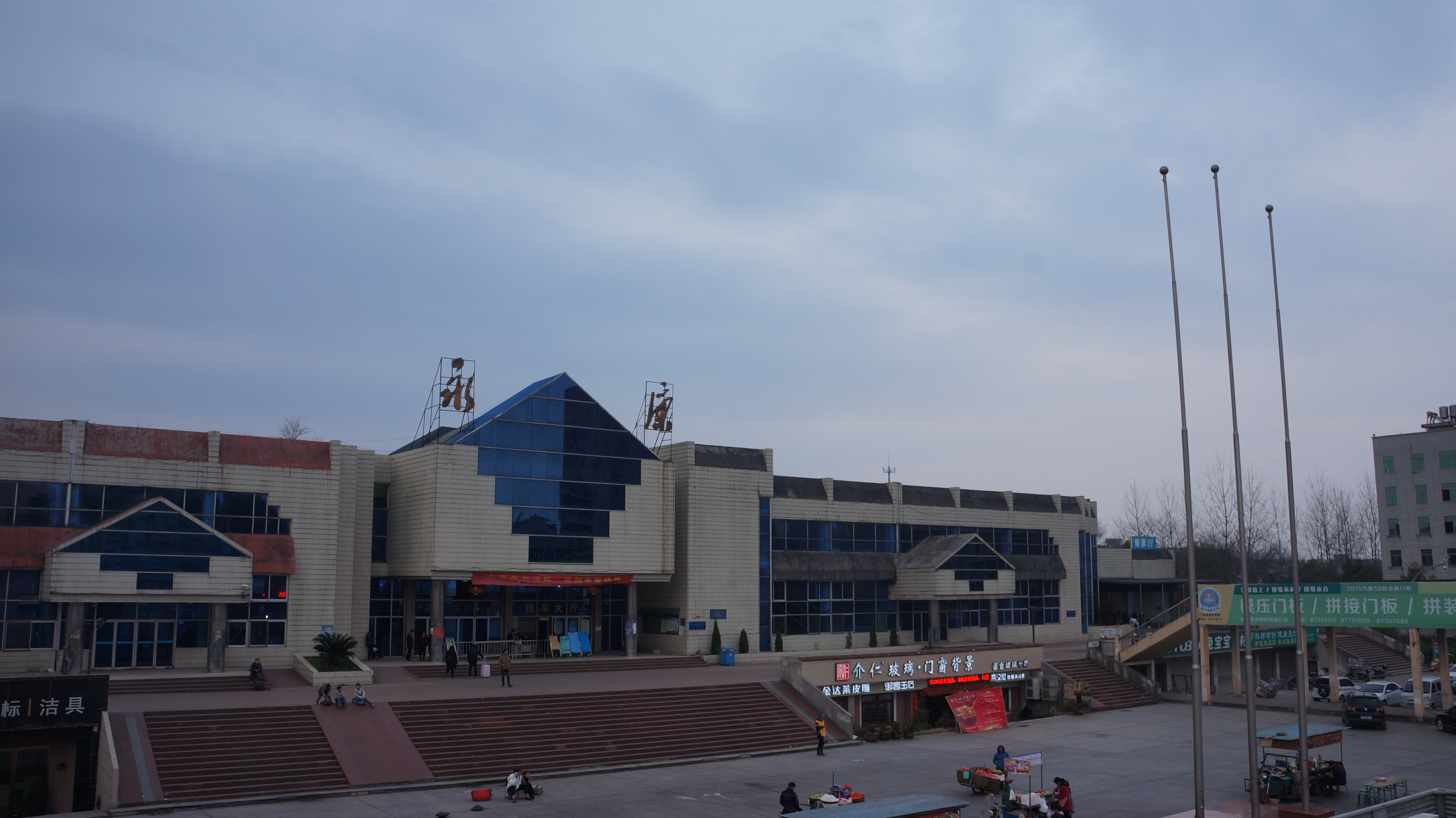 201603 Yongkang Station